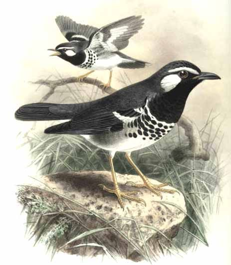 An illustration of Zoothera schistacea by J. G. Keulemans